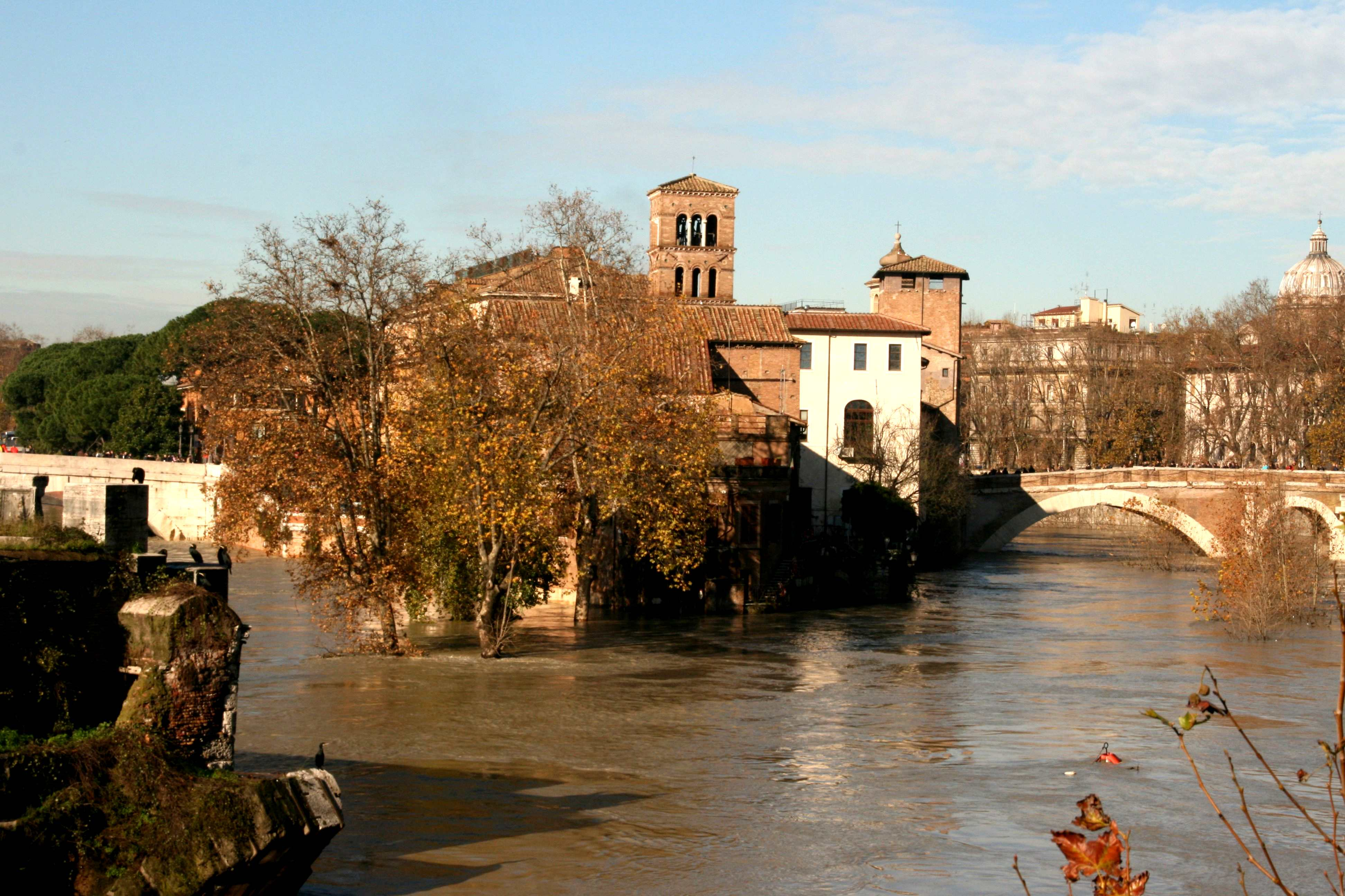 Tiber island on December 13th 2008. The highest level of the Tiber for 40+ years.